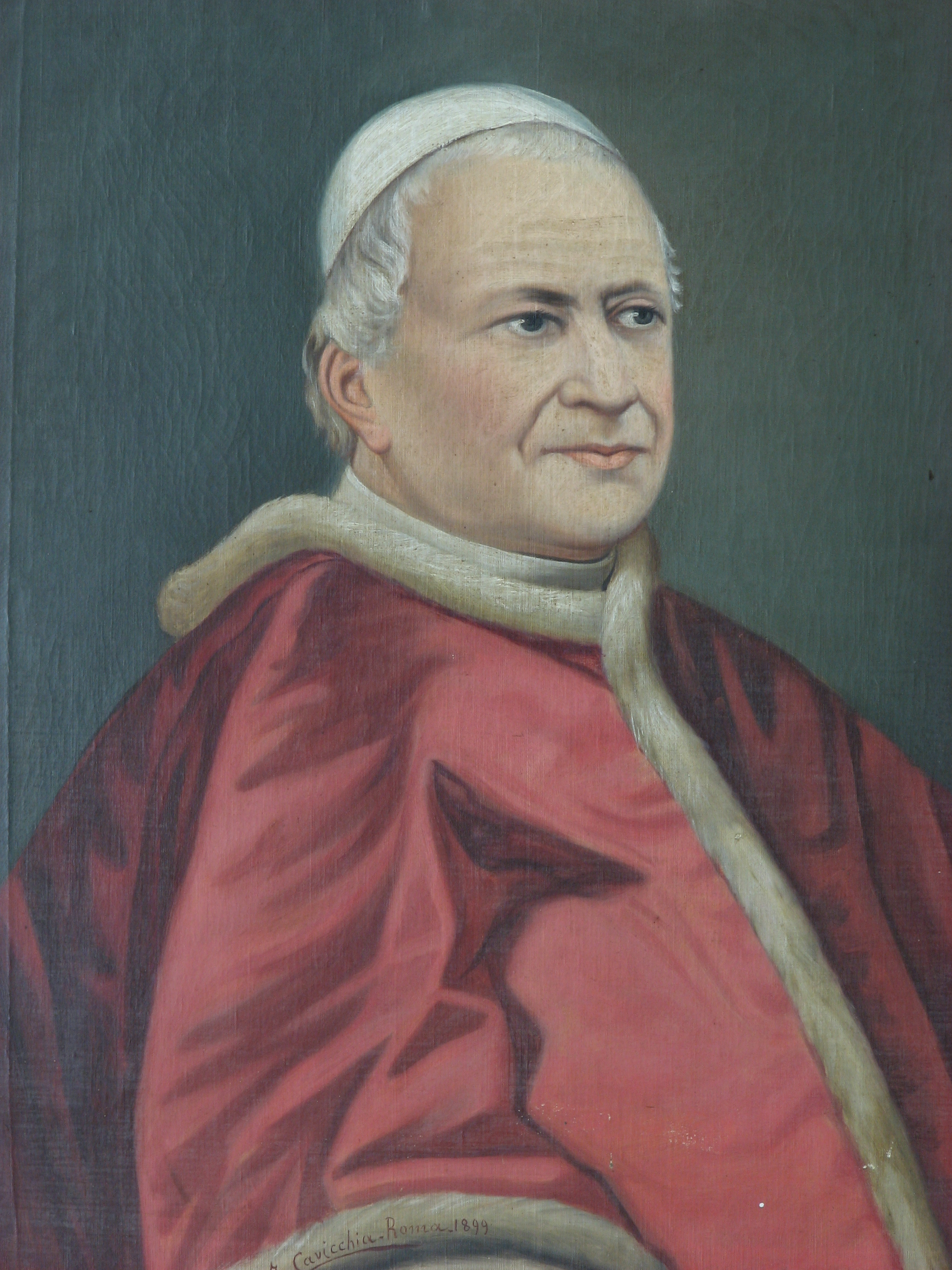 Depicted person: Pio IX